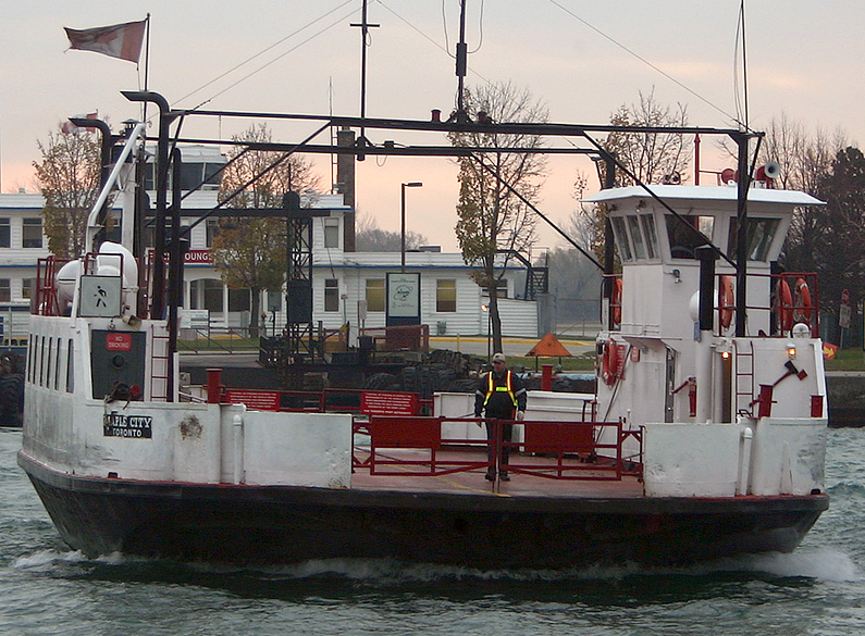 The Maple City ferry, which operates services between the foot of Bathurst St and the Toronto City Centre Airport. Photo by Duke in November 2005.